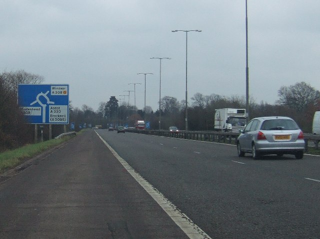 A308M Motorway Spur. The A308(M) which takes traffic from the M4 towards central Maidenhead. Camera is facing roughly East.